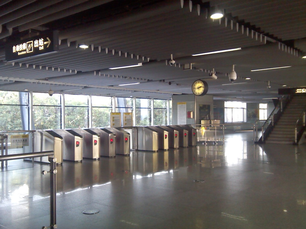 黄阁站站厅